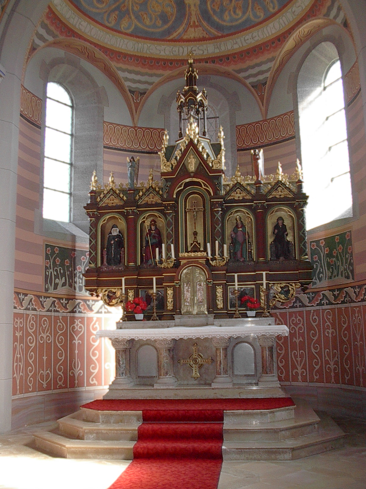 Der Hochaltar der Pfarrkirche Weichering seit der Renovierung von 1989